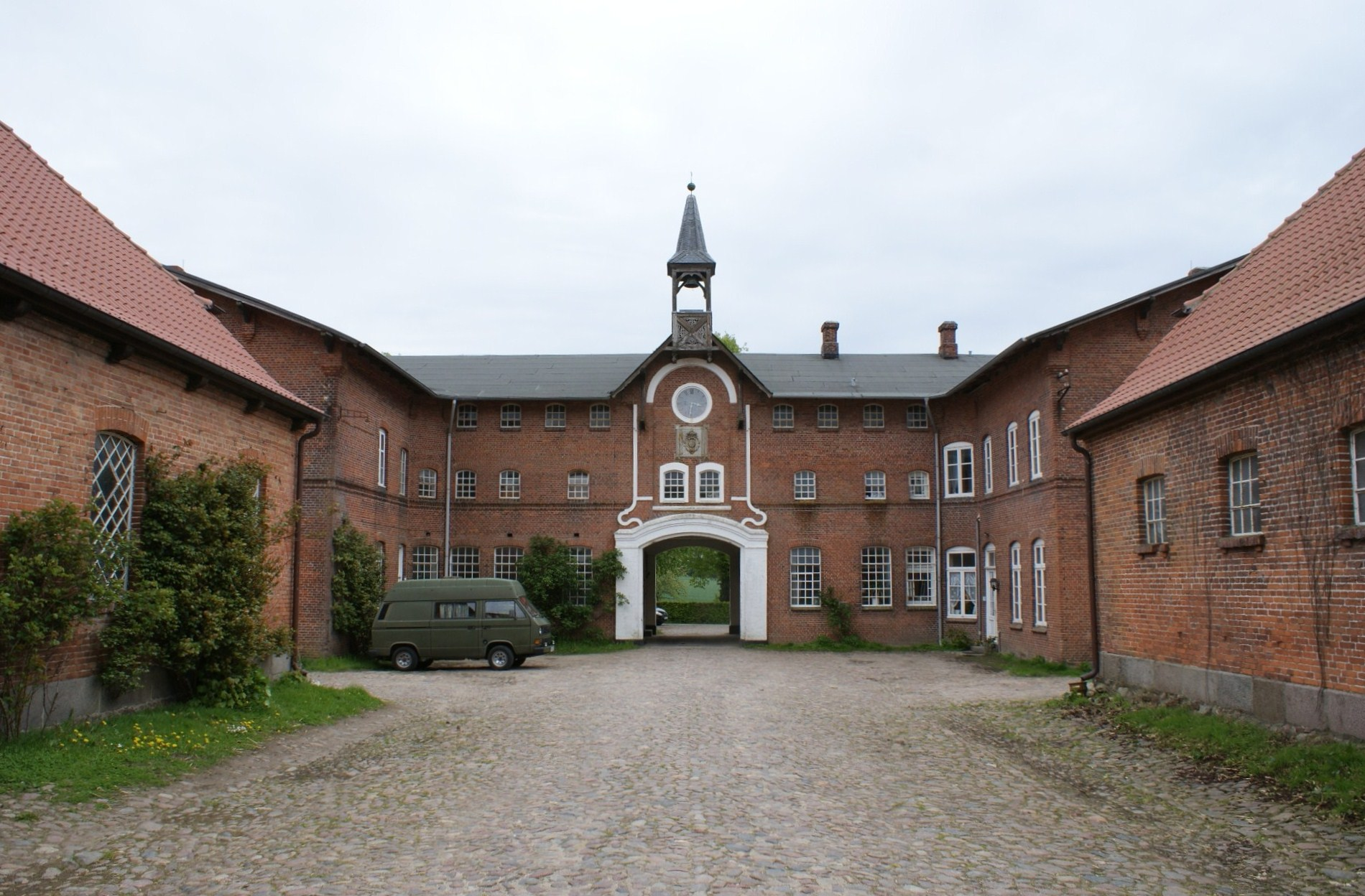 Gatehouse at Grünholz Manor